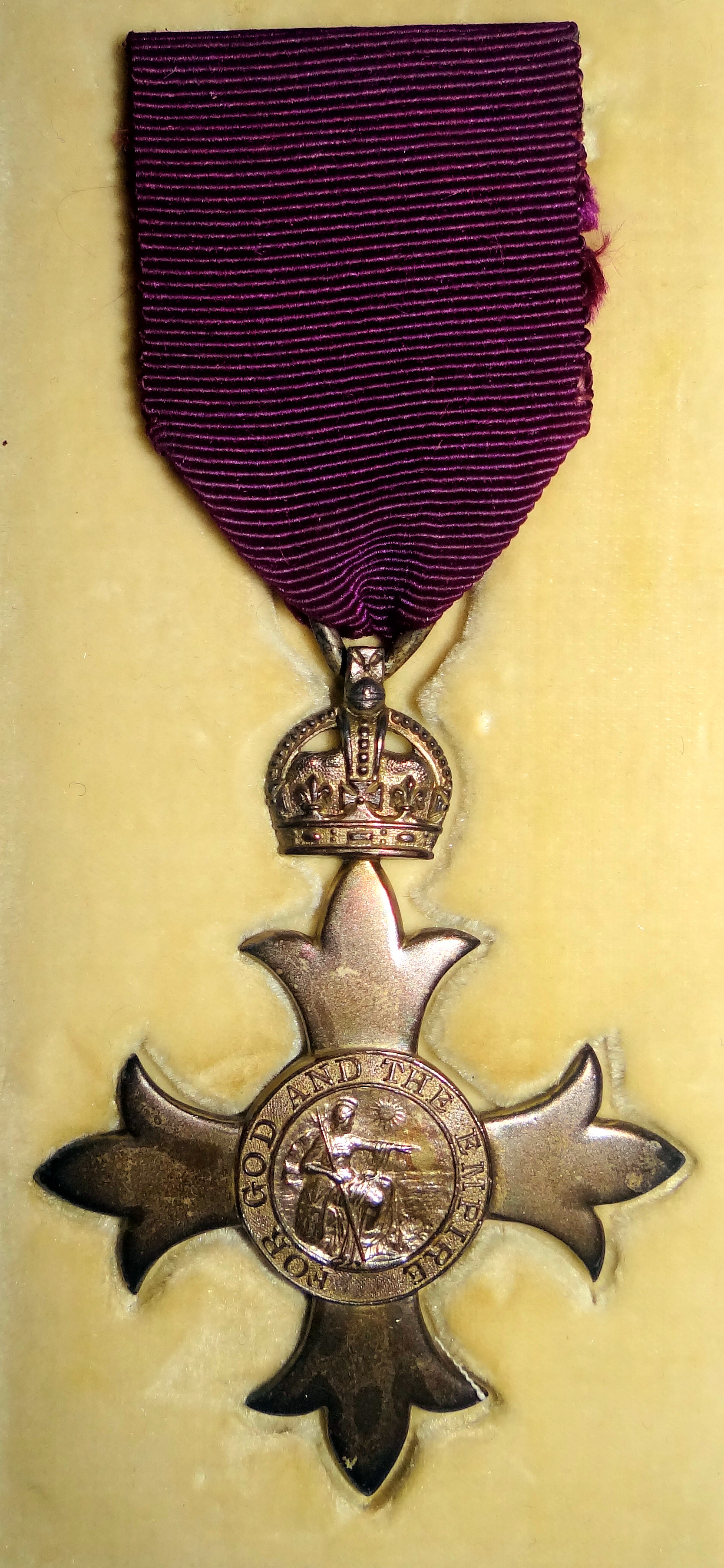 The MBE awarded in 1918 to Jerome Bernhard Murphy, manager of Cunard Line's office in Queenstown, Ireland (present-day Cobh), during the sinking of the Lusitania by a German submarine.